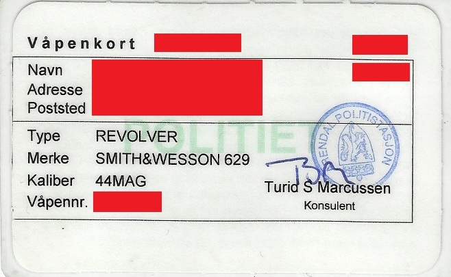 Norwegian gun permit, front